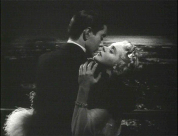 Screenshot of Tyrone Power and Alice Faye from the trailer for the film Alexander's Ragtime Band